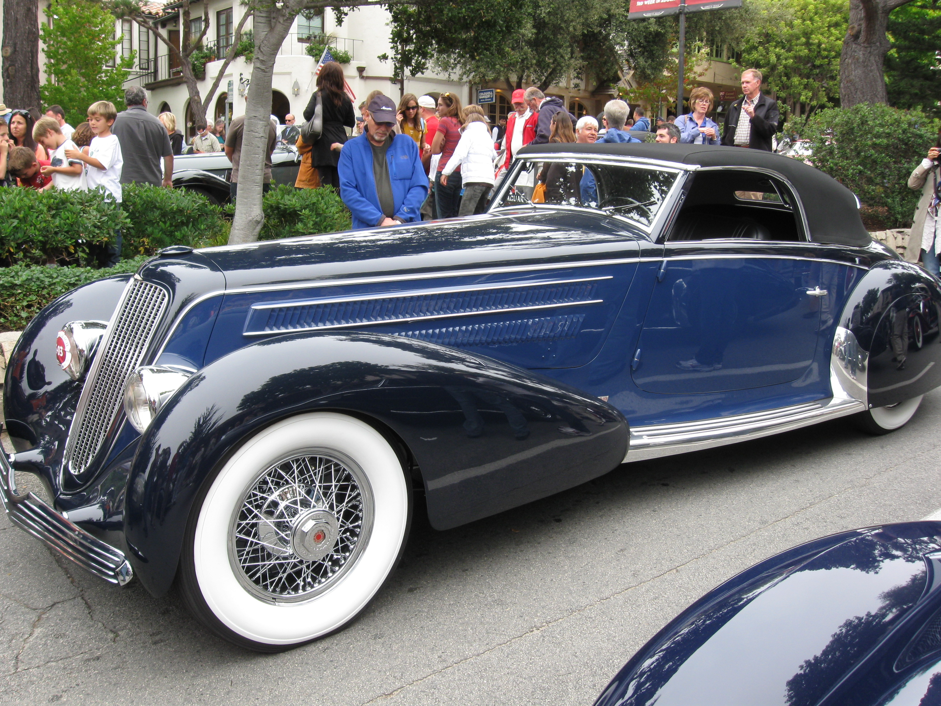 1930 Duesenberg Model J cabriolet bodied by Hermann Graber, Wichtrach, Berne, Switzerland